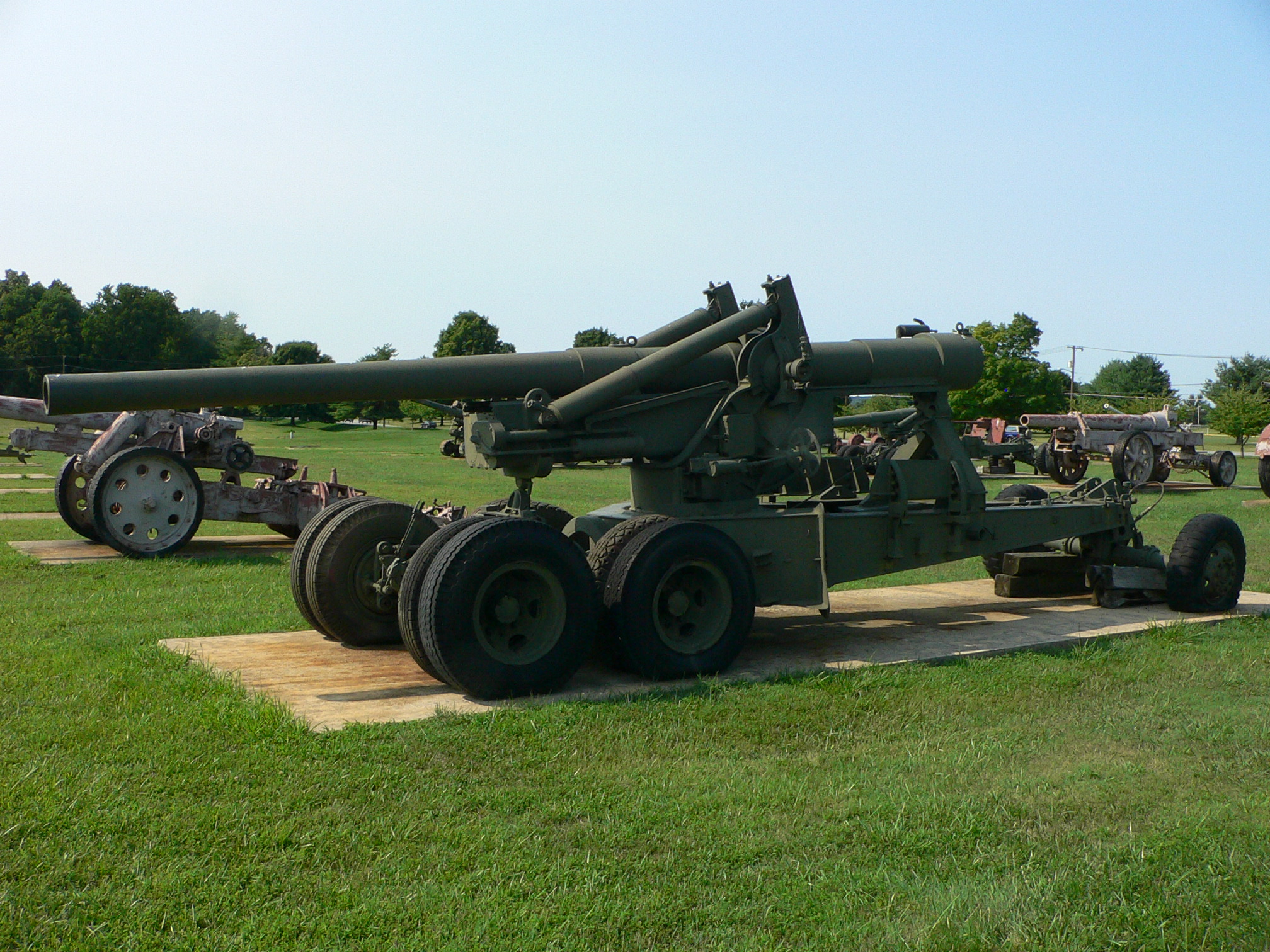 Picture taken by myself, Mark Pellegrini, at the United States Army Ordnance Museum (Aberdeen Proving Ground, MD) on August 14, 2007.